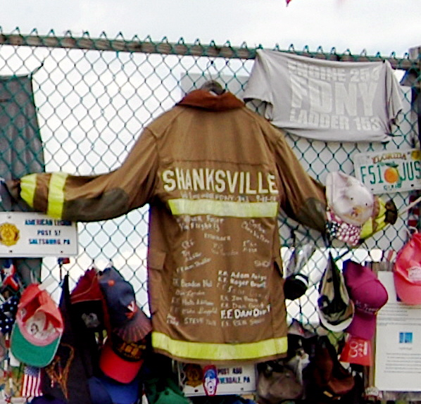 Shanksville Fire Coat on the memory wall at the Flight 93 temporary memorial